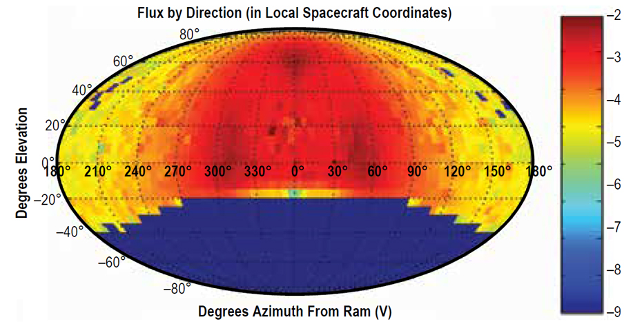 The sporadic meteoroid environment in LEO at an altitude of 400 km. The plot is relative to the local spacecraft frame and motion, showing flux intensity as a function of local azimuth and elevation. The Earth shields one side of any spacecraft from a large portion of the meteoroids at this altitude. The shadow has a spherical shape due to the aberration effects of spacecraft motion. Screenshot from the source document.